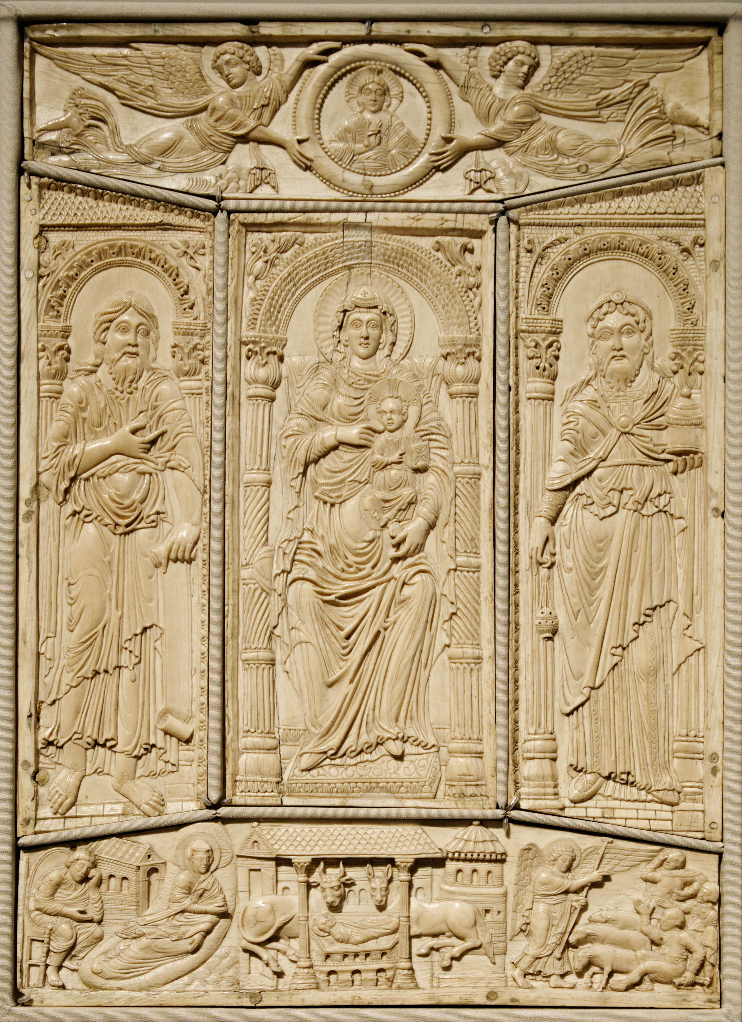 Virgin enthroned and Child with St John on the left and Zacharias on the right, front cover of the so-called Lorsch Gospels, Carolingian artwork.